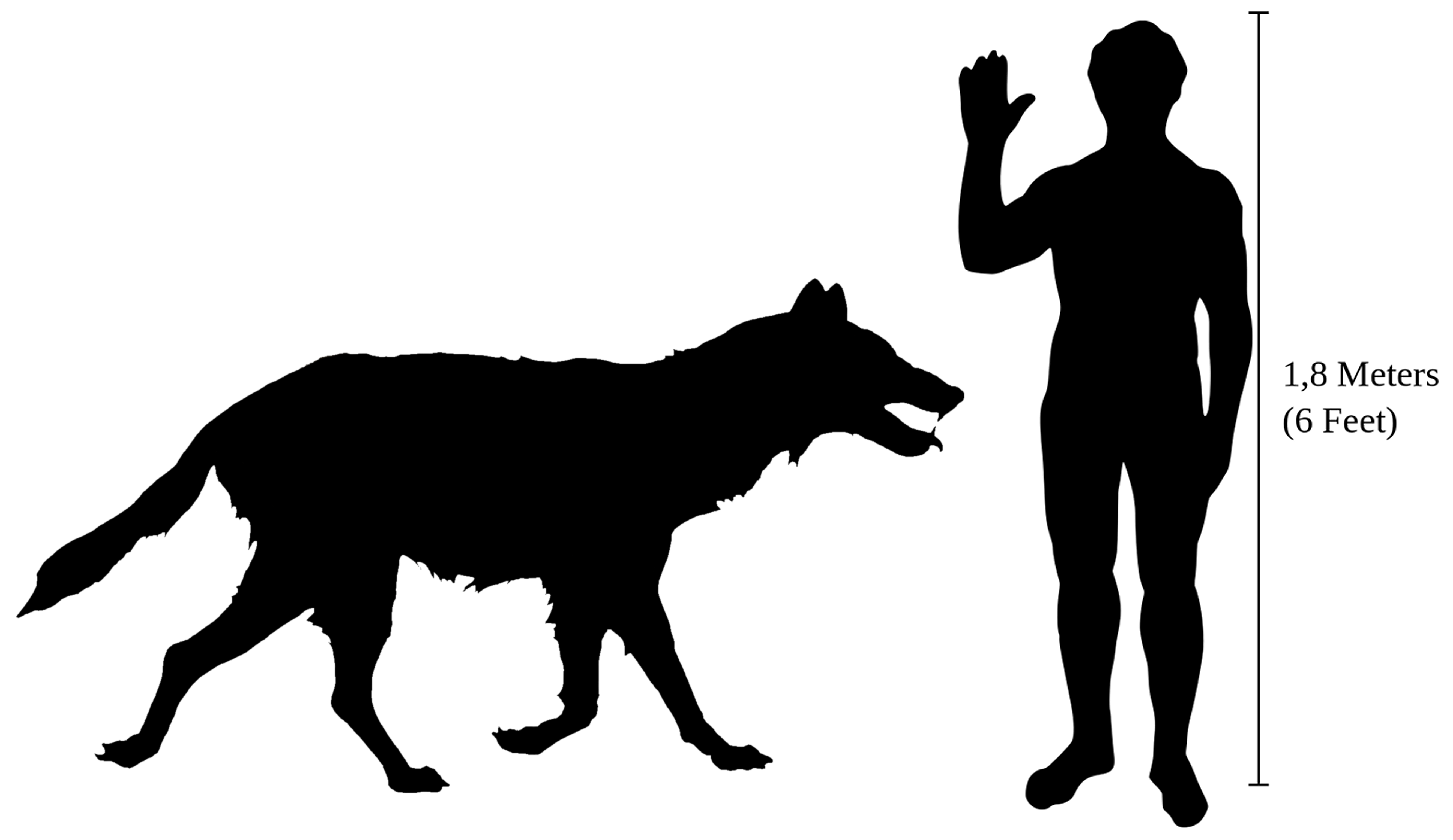 Size of Canis dirus compared to a human. Based on measurements given in Mech, L. David (1966). The Wolves of Isle Royale. Fauna Series 7. Fauna of the National Parks of the United States